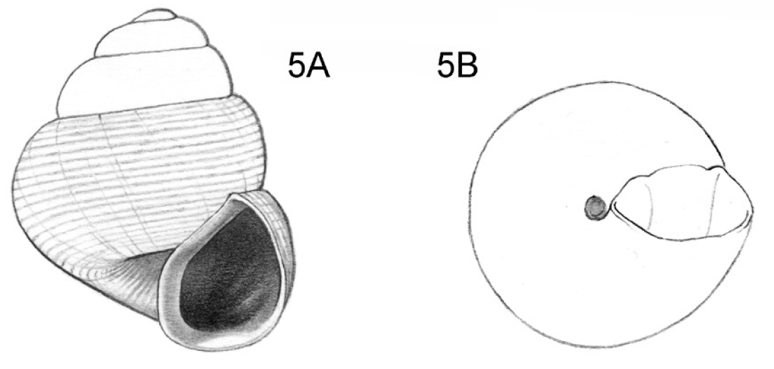 Acmella nana Vermeulen, Liew & Schilthuizen, 2015, Assimineidae, Caenogastropoda, Gastropoda, Holotype, from Miri District, Sarawak, Malaysia